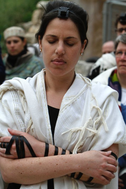 Woman during Women of the Wall prayer.